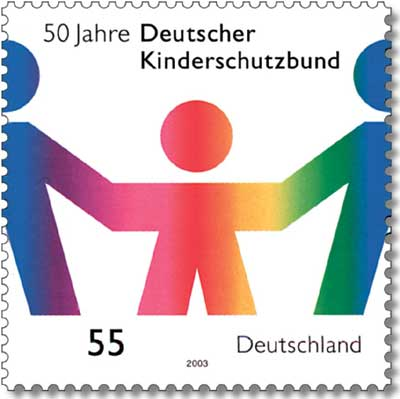 Stamp from Deutsche Post AG from 2003, 50th anniversary of German Kinderschutzbund